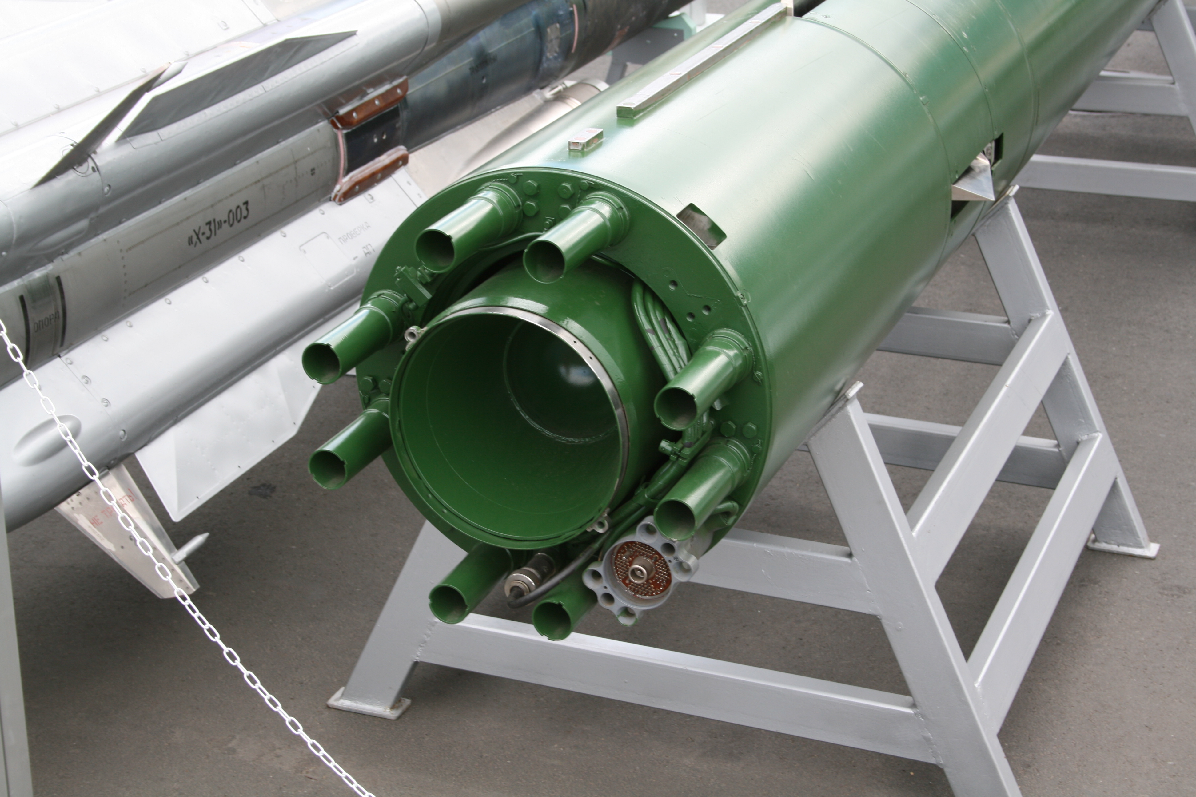 Underwater missile «Shkval» (export variant, rear view) shown on IMDS-2007